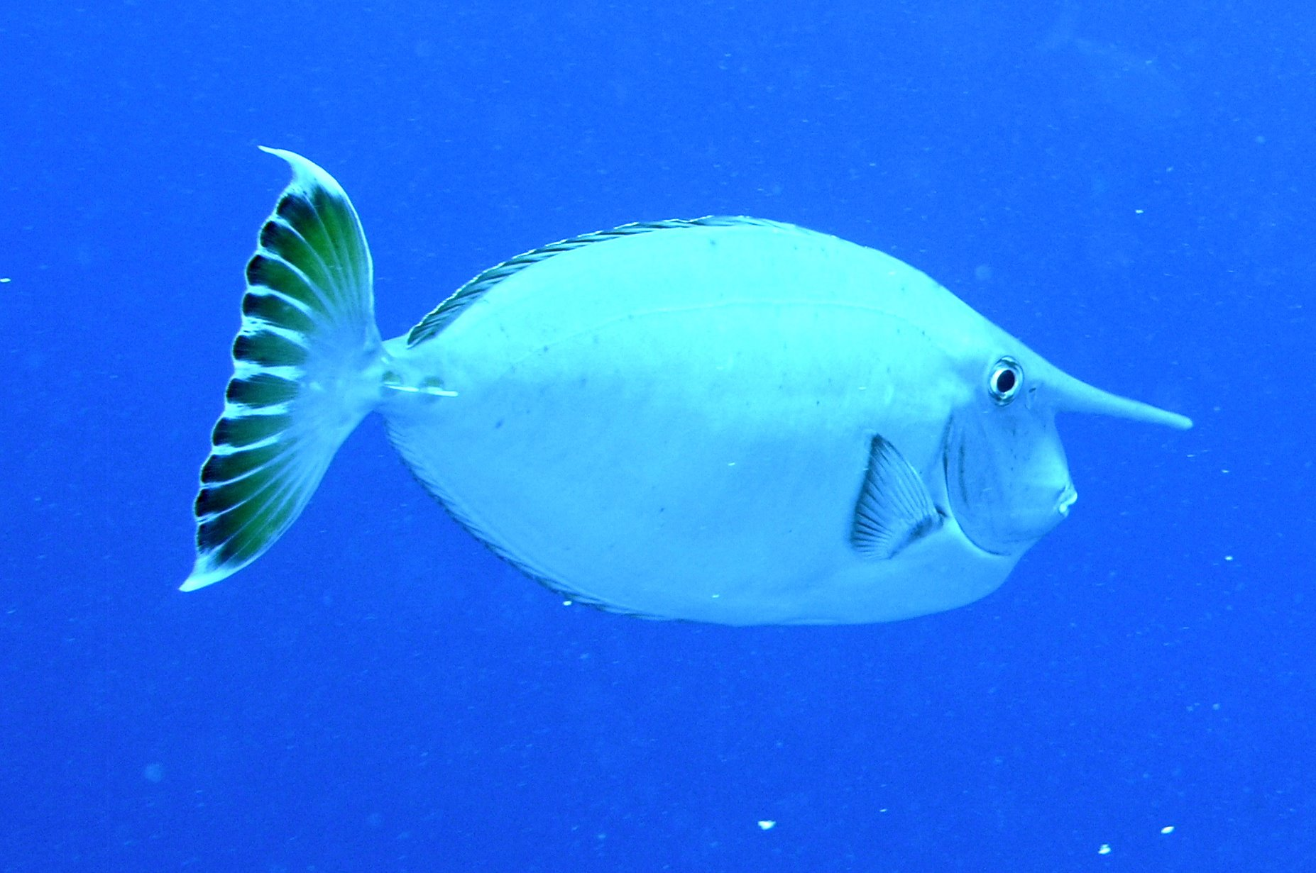 Image of Whitemargin unicornfish. . Taken off Bunaken Island, North Sulawesi, Indonesia.